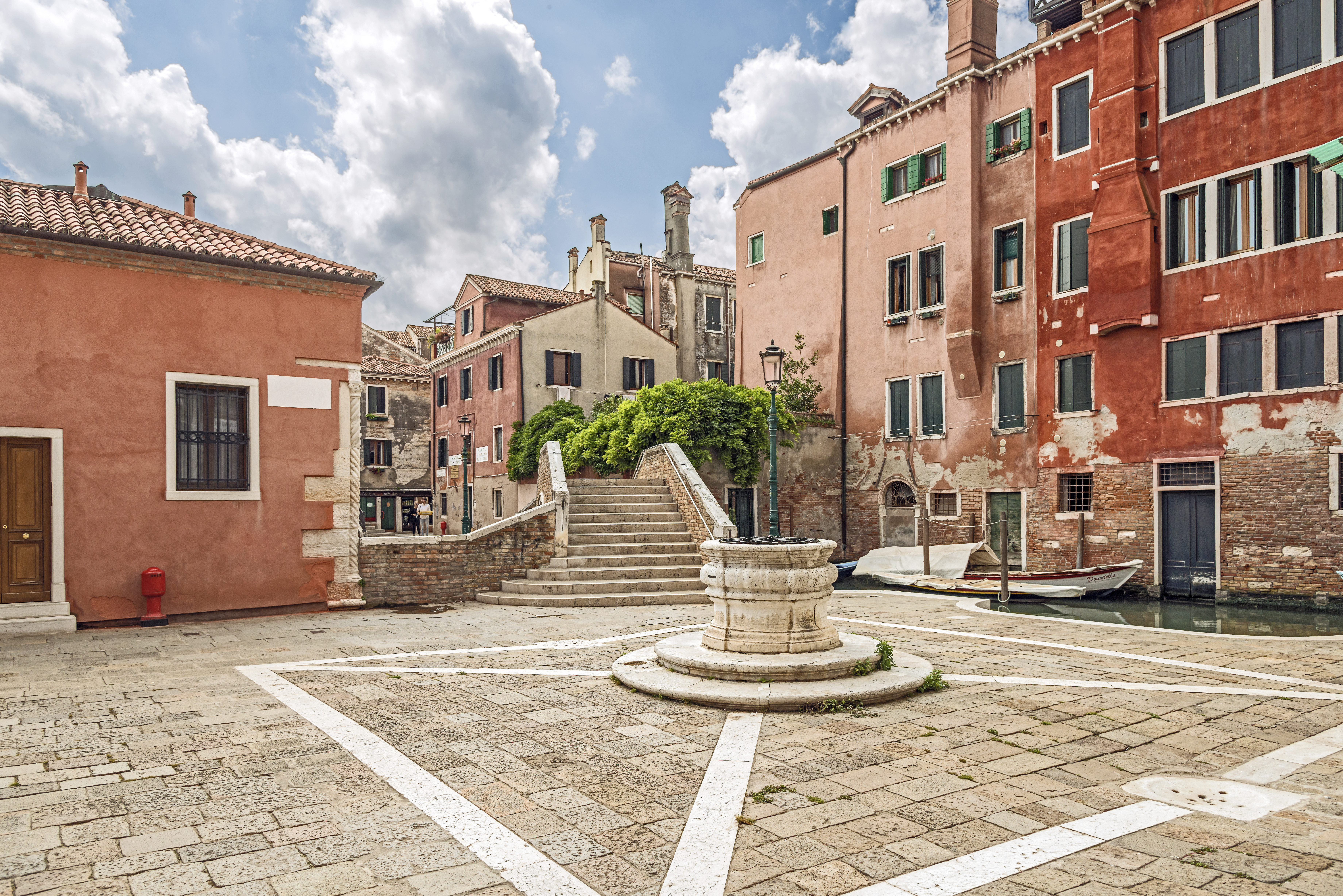 Venice – Campo San Boldo